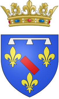 Coat of arms of the Duke of Enghien